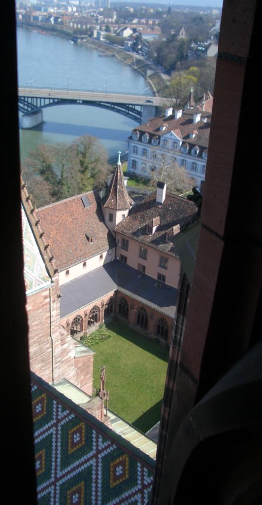 Basel cathedral's great cloister seen from the St. George's tower. In the background Wettstein bridge over Rhine.